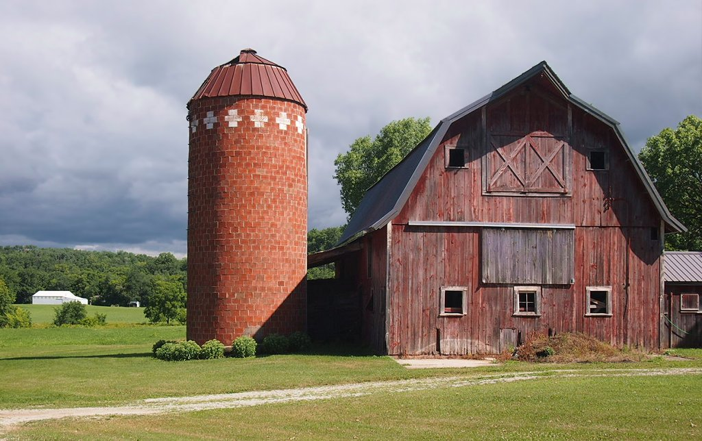 Farms viewed from Old Cave Road, Forestville Township, Minnesota, USA.